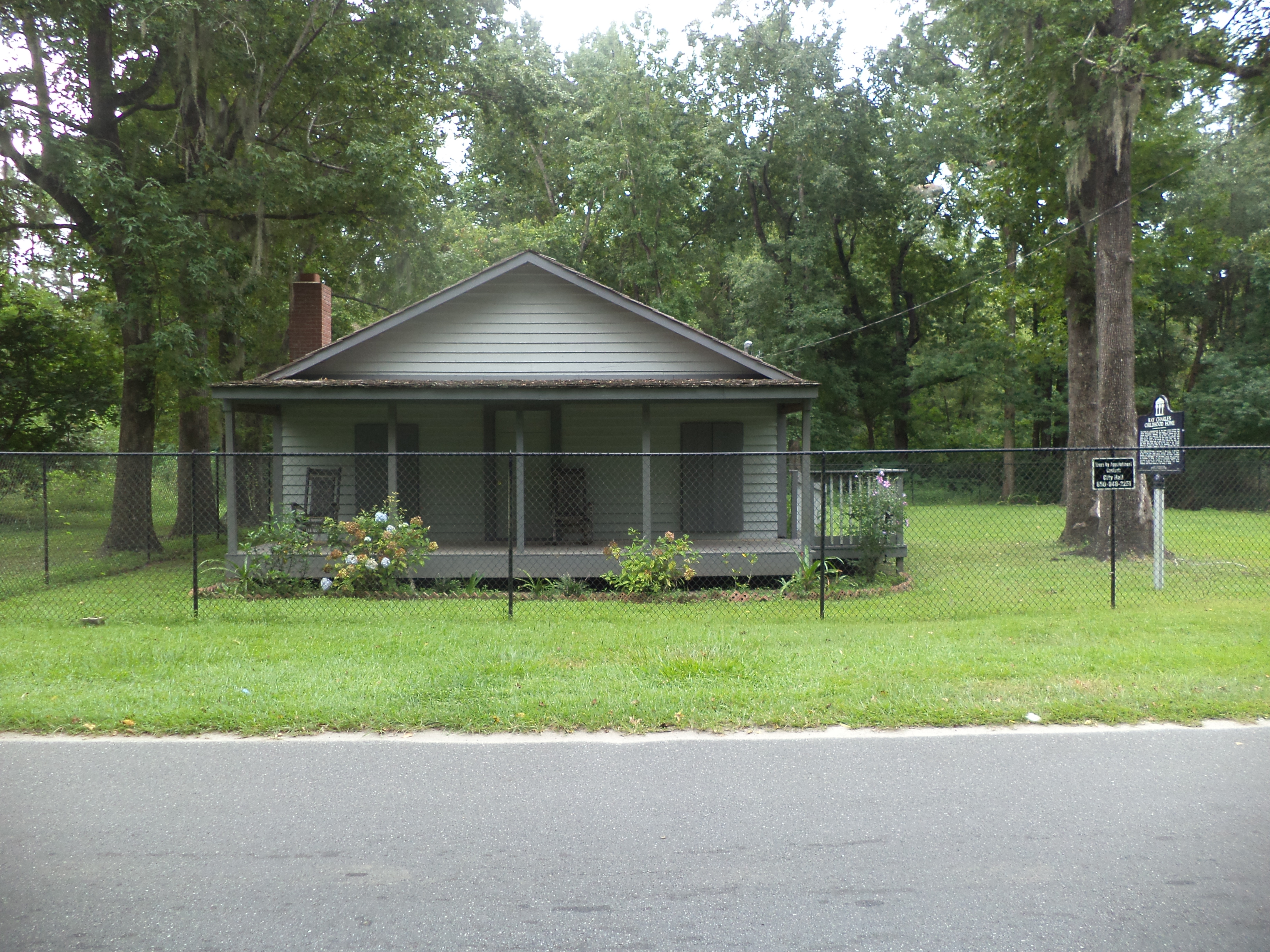 Ray Charles Childhood Home, Greenville, Madison County, Florida